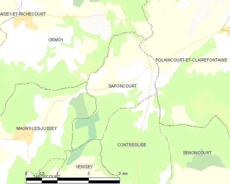 Map of French municipality